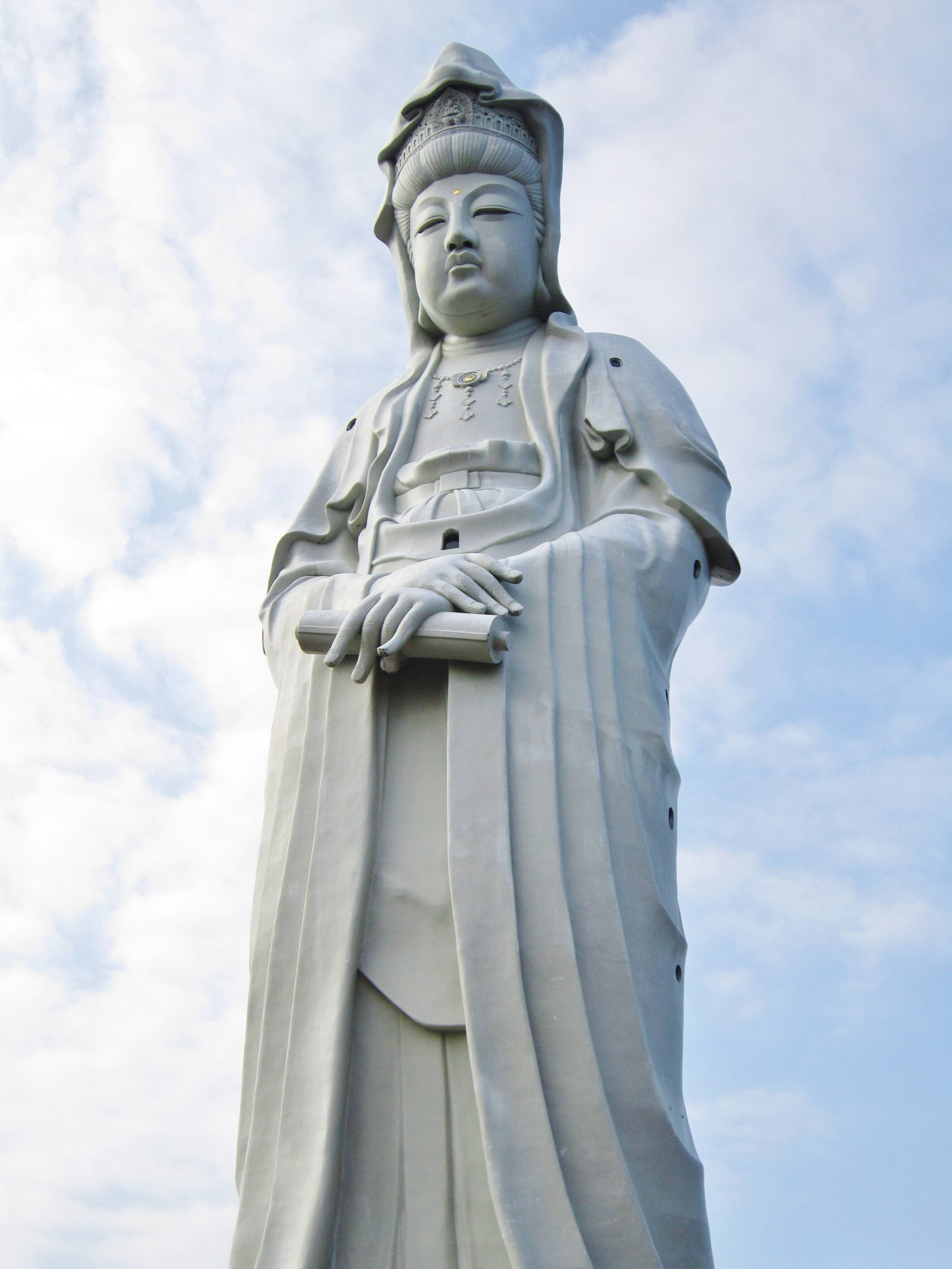 Takasaki Kannon.